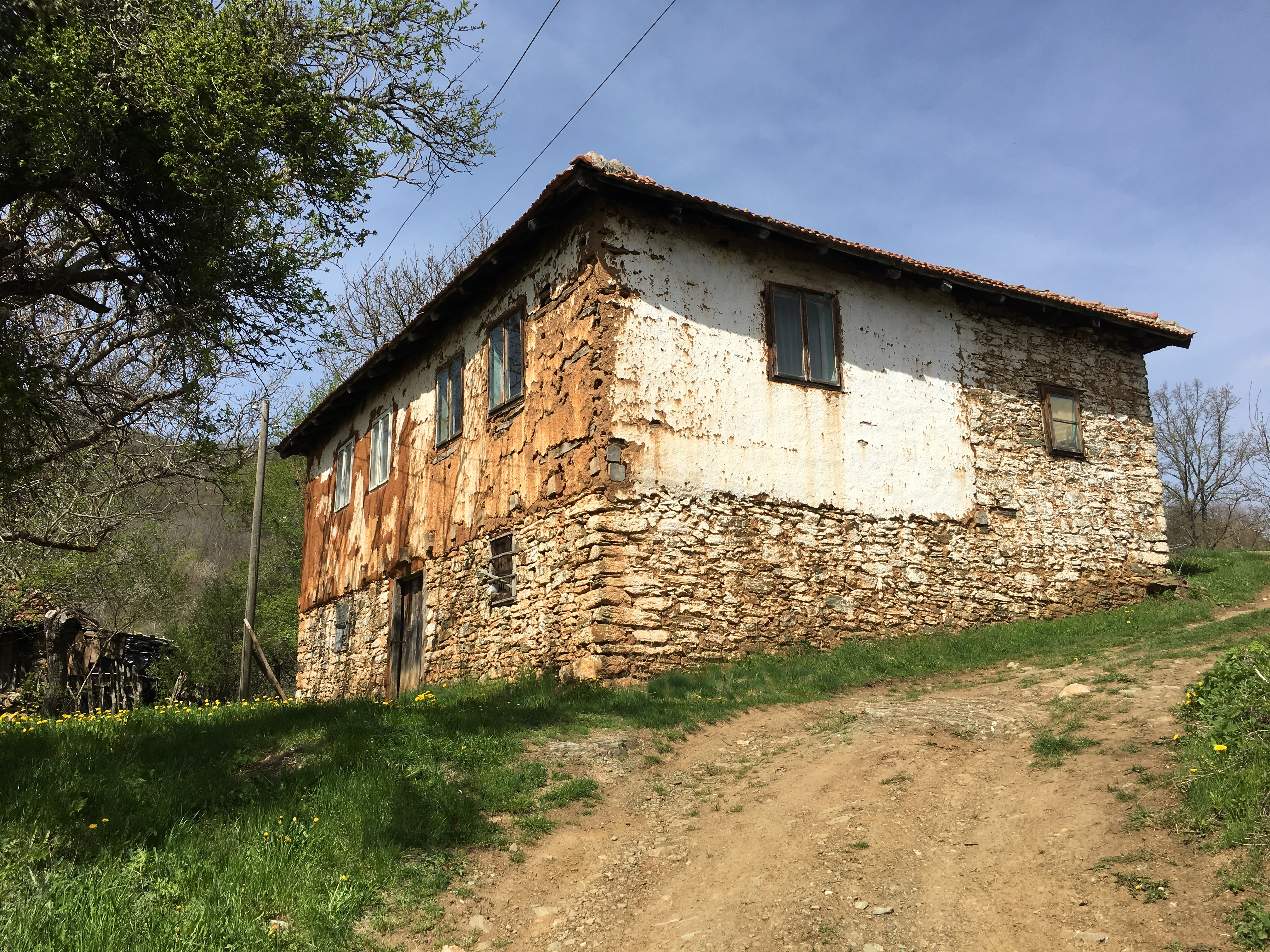 A house in the village of Kiselica